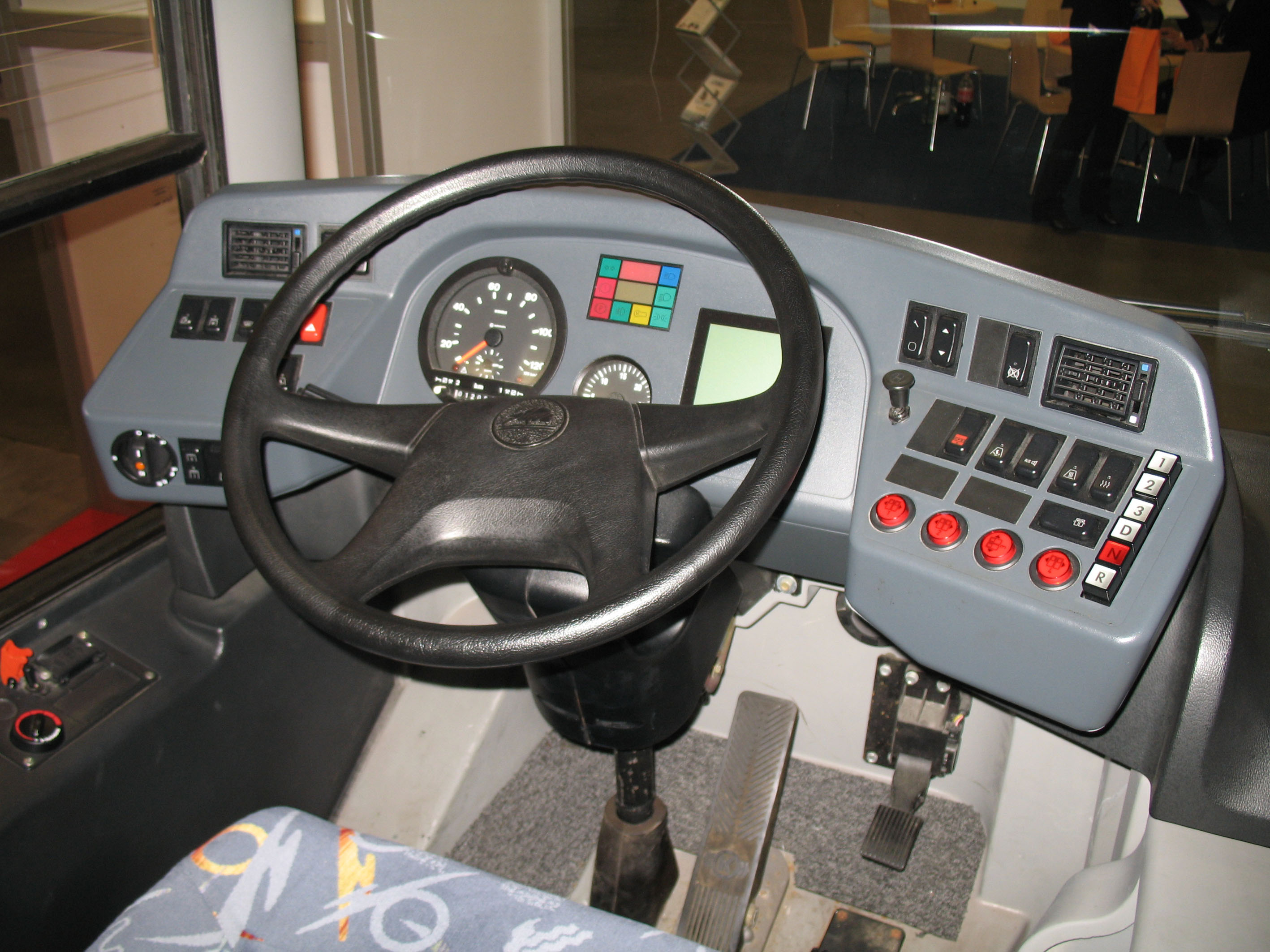 MAZ 205 city bus (reg. 7EKT2488) cockpit (orginal name МАЗ 205) in Kielce, Poland. Built 2009, Transexpo 2010.